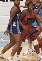 Mary Waya (GA, right) being marked by a Fijian defender at the 2006 Commonwealth Games in Melbourne